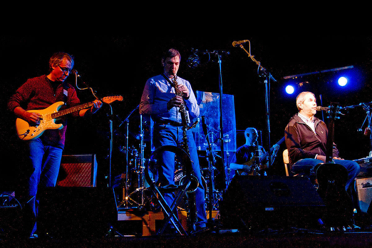 Bratři Ebenové in the KD Trisia (EU - Czech Republic - Třinec).